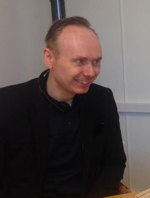 Swedish haute couture designer Pär EngshedenPlace: Marianne Bernadotte Centrum of the Caroline Institute, St. Erik Hospital, Polhemsgatan 56, Stockholm, Sweden